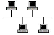 Bus network topology, own work